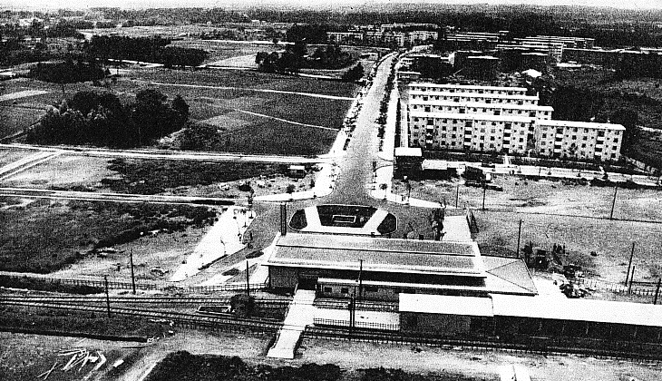 Tokiwadaira Danchi under construction